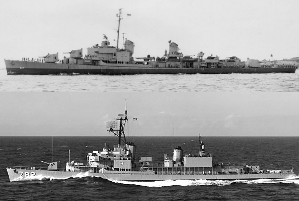 Comparison of two U.S. Navy Gearing-class destroyers after delivery and after the Fleet Fleet Rehabilitation and Modernization (FRAM) I refit in the early 1960s. USS Sarsfield (DD-837) is shown off Boston, Massachusetts (USA), on 23 August 1945, about three weeks after her commissioning. She features three 12.7 cm/38 twin mounts, 16 40 mm Bofors AA guns and 5 53.3 cm torpedo tubes between the funnels. USS Rowan (DD-782) is underway in the Western Pacific, circa early 1965, after her FRAM I refit: she has two 12.7 cm mounts, Mk 32 torpedo launchers, SPS-37 radar, ASROC launcher between the funnels and DASH hangar and flight deck aft.